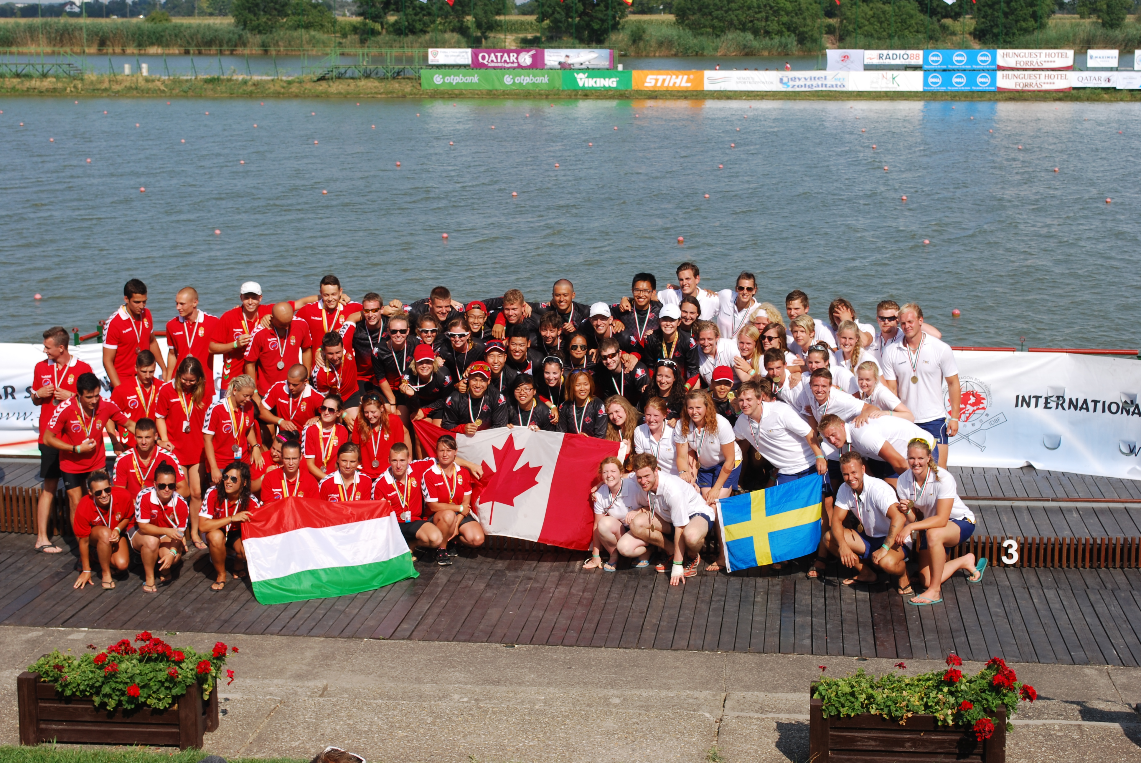 IDBF World Dragon Boat Racing Championships 2013 in Szeged, Hungary. Standard boat U24 mixed 500 meter medal ceremony. Canada won gold, Hungary won silver and Sweden won bronze.